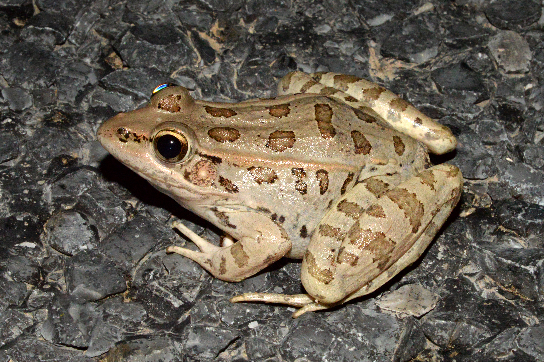 Rio Grande Leopard Frog (Lithobates berlandieri), Class, Amphibia: Order, Anura: Family, Ranidae. This frog was photographed in-situ while it was crossing Highway 4, Cameron County, Texas, USA, (25.9442°N, 97.3533°W, 3 m. elev.) 10 April 2016. William L. Farr